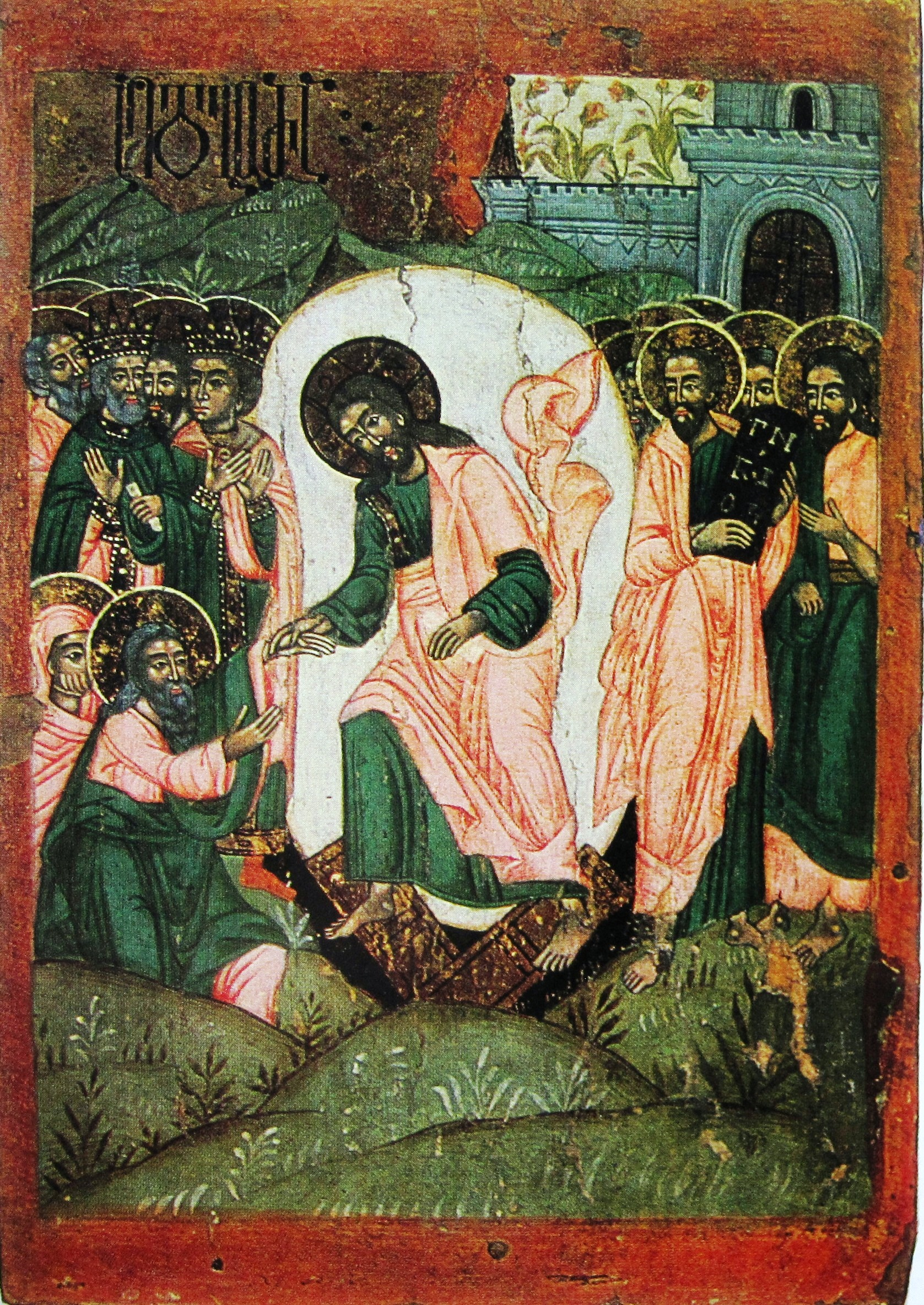 Icon from Katskhi